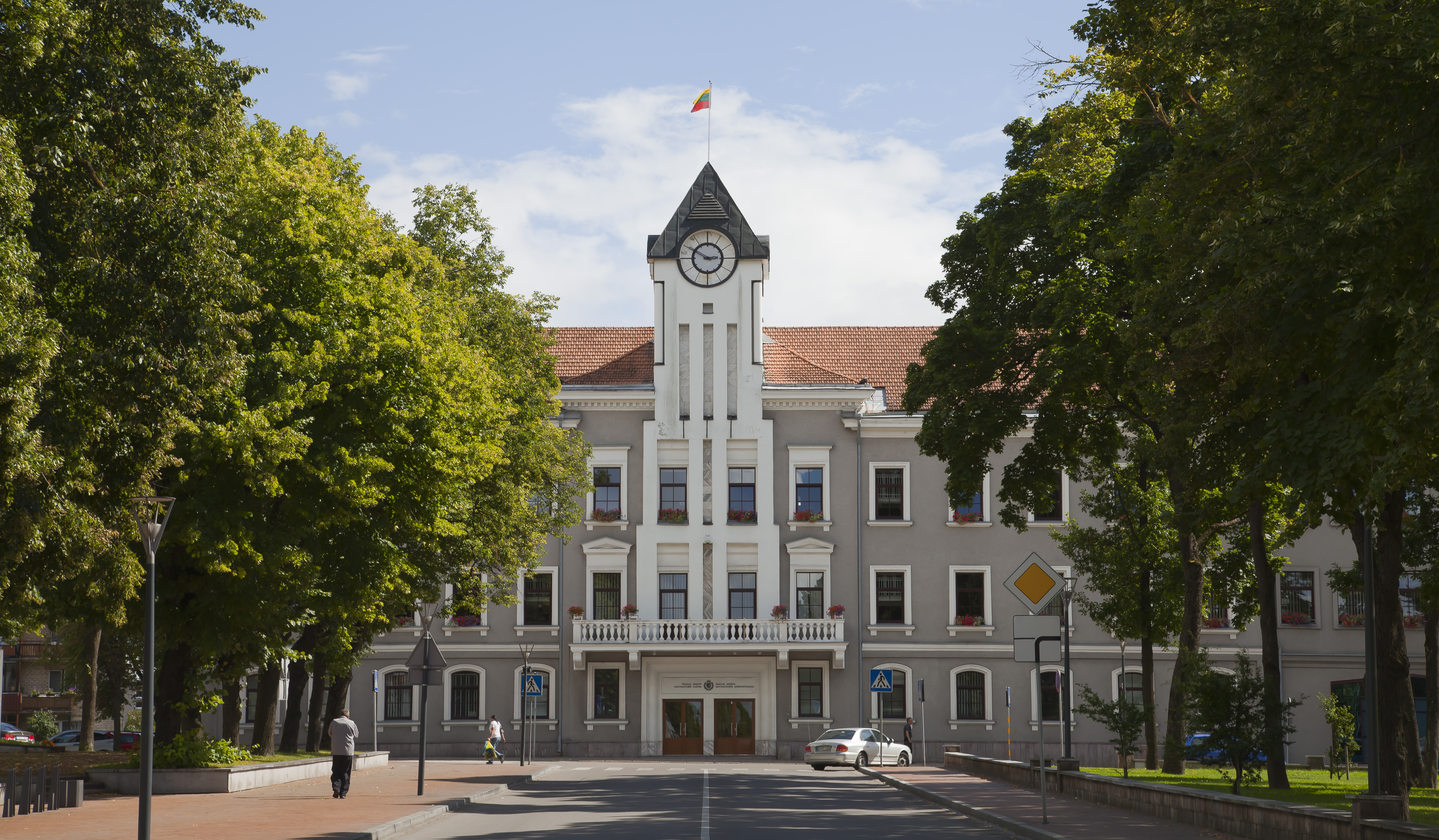 Town hall in Siauliai, Lithuania